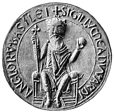 First Great Seal of Edward the Confessor (obverse)